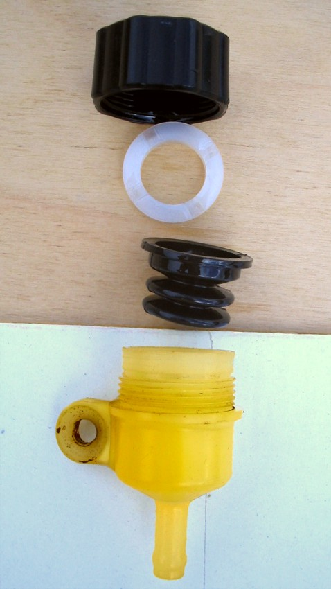 Brake fluid reservoir of a posterior implant for motorcycles, in this case is accompanied by a membrane that separates the liquid from the air and from a disk which allows the change in volume between the cap and the membrane.